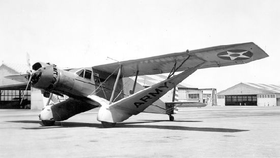 Bellanca C-27C "Airbus" transport aircraft of the United States Army Air Corps. Note extended NACA cowling compared to earlier C-27s Townsend ring cowlings.